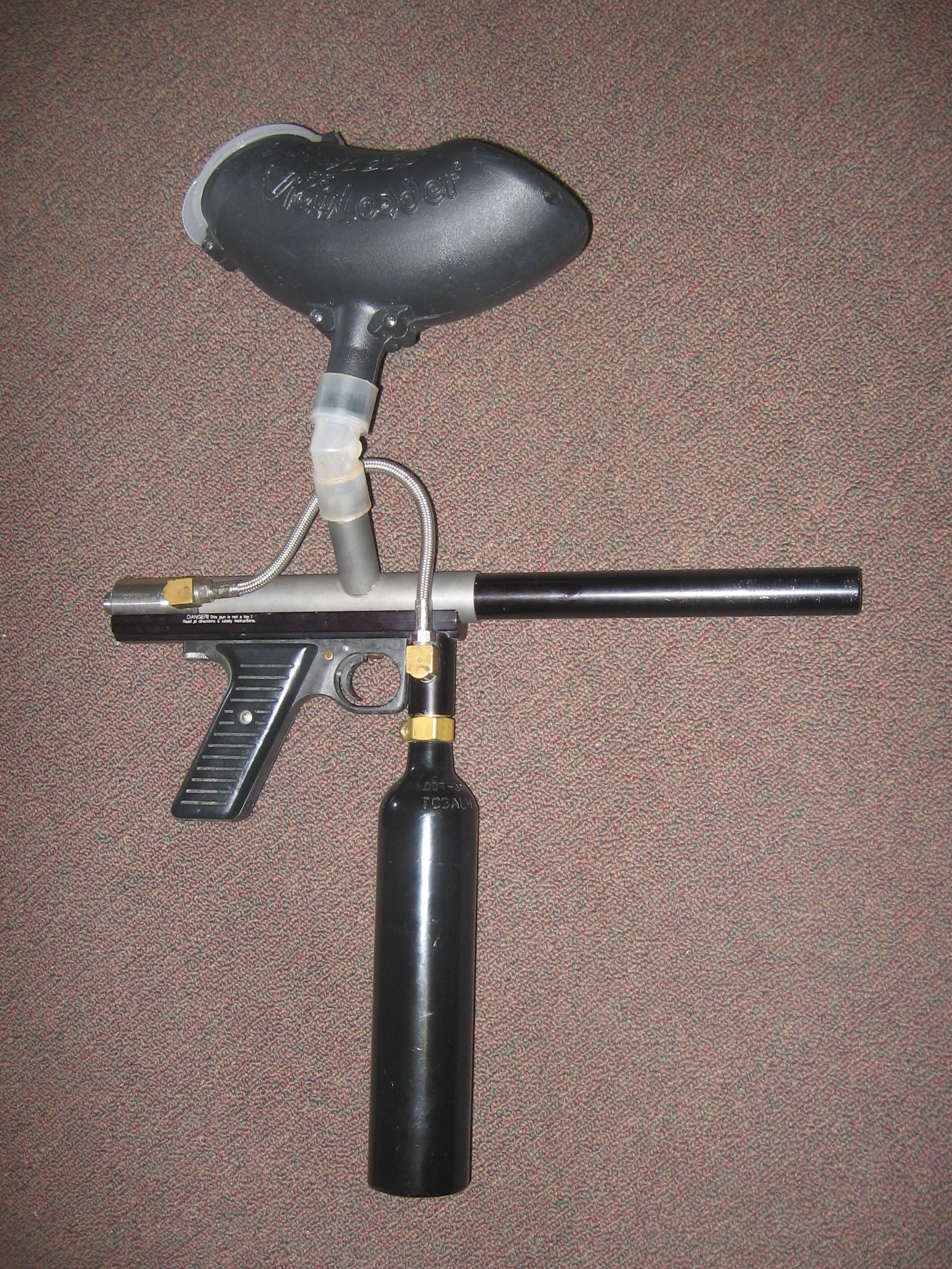 Airgun Designs Automag Classic paintball gun with attached Brass Eagle 9-oz CO2 tank and ViewLoader hopper. This gun has a rental valve with mismatched halves.